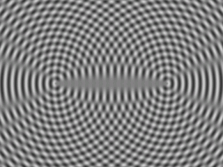 Interference pattern of spherical wave fronts from two points sources in two dimensions